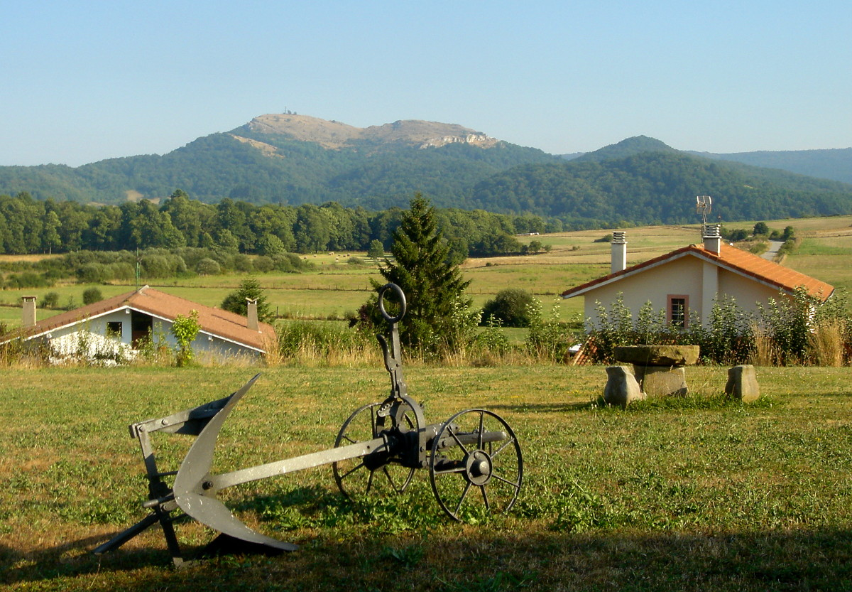 Oro mountain (Araba, Basque Country, Spain)